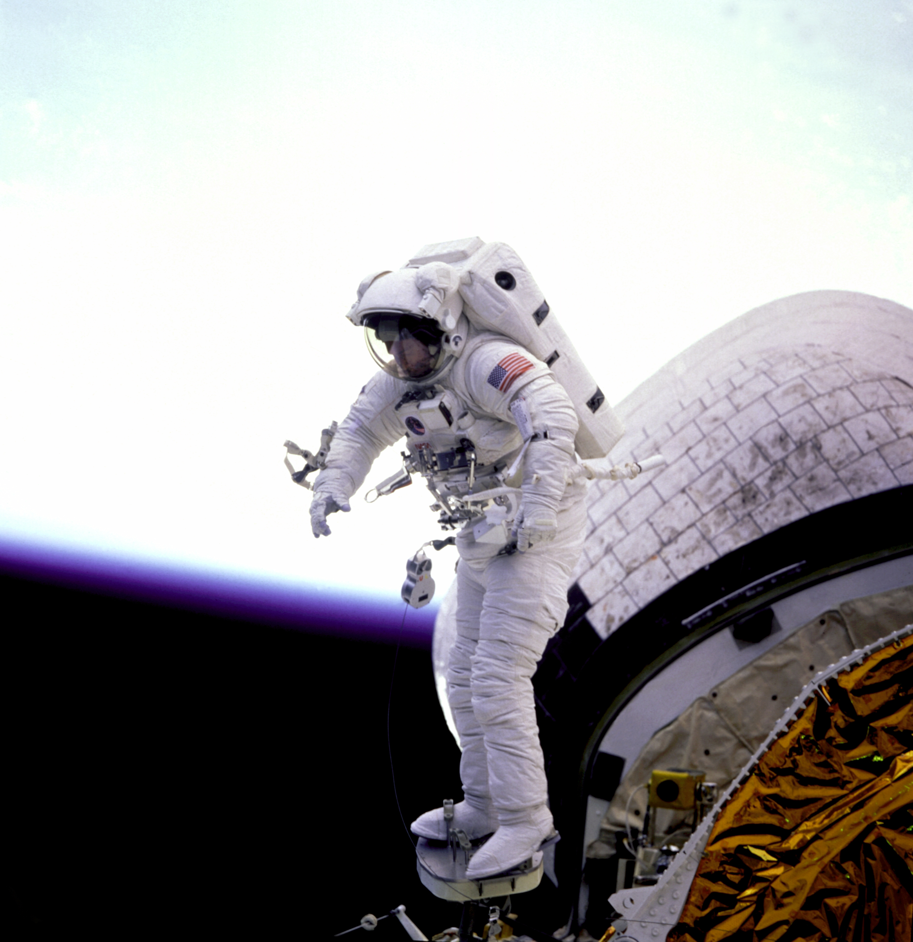 Mission Specialist James H. Newman conducts an in-space evaluation of the Portable Foot Restraint (PFR) which will be used operationally on the first Hubble Space Telescope (HST) servicing mission and future Shuttle missions. He is positioned on the edge of Discovery's payload bay. Behind him the starboard Orbital Maneuvering System (OMS) pod can be seen with the soft glow of an Earth limb.